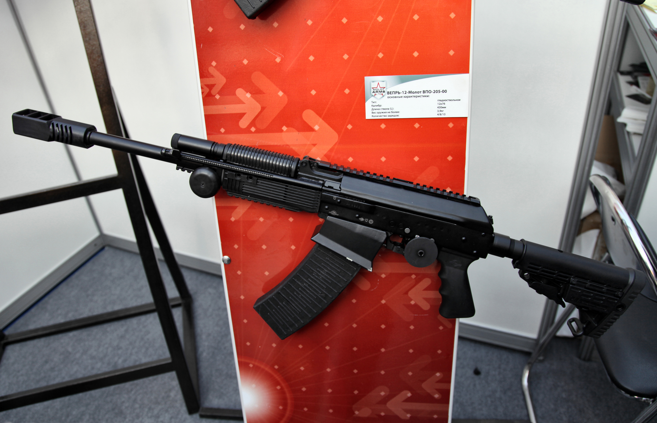 12x76 Vepr-12 Molot VPO-205-00 at ARMS & Hunting 2012